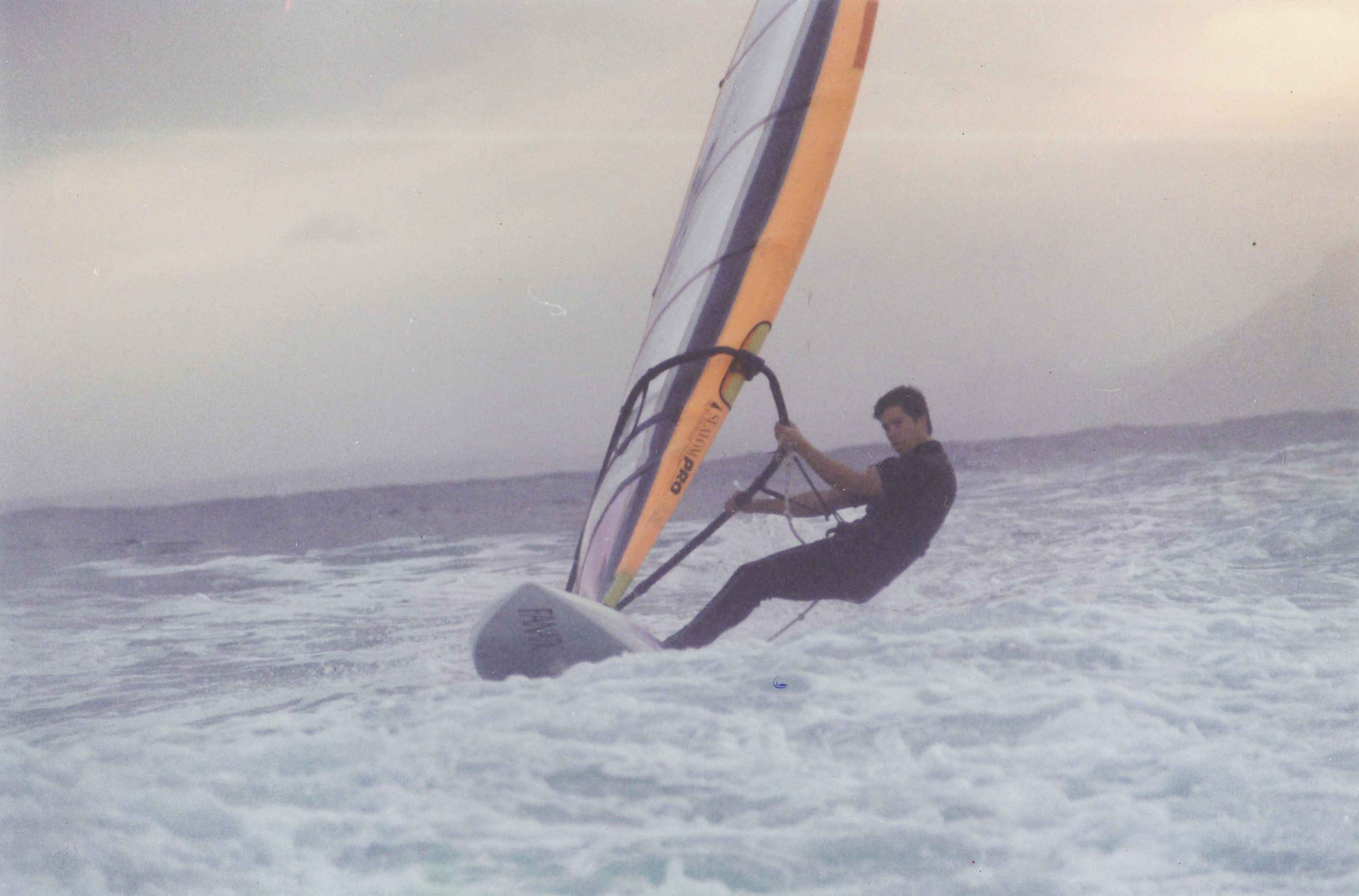 Benoit Bouchet windsurfing from Mauritius September 11, 1994